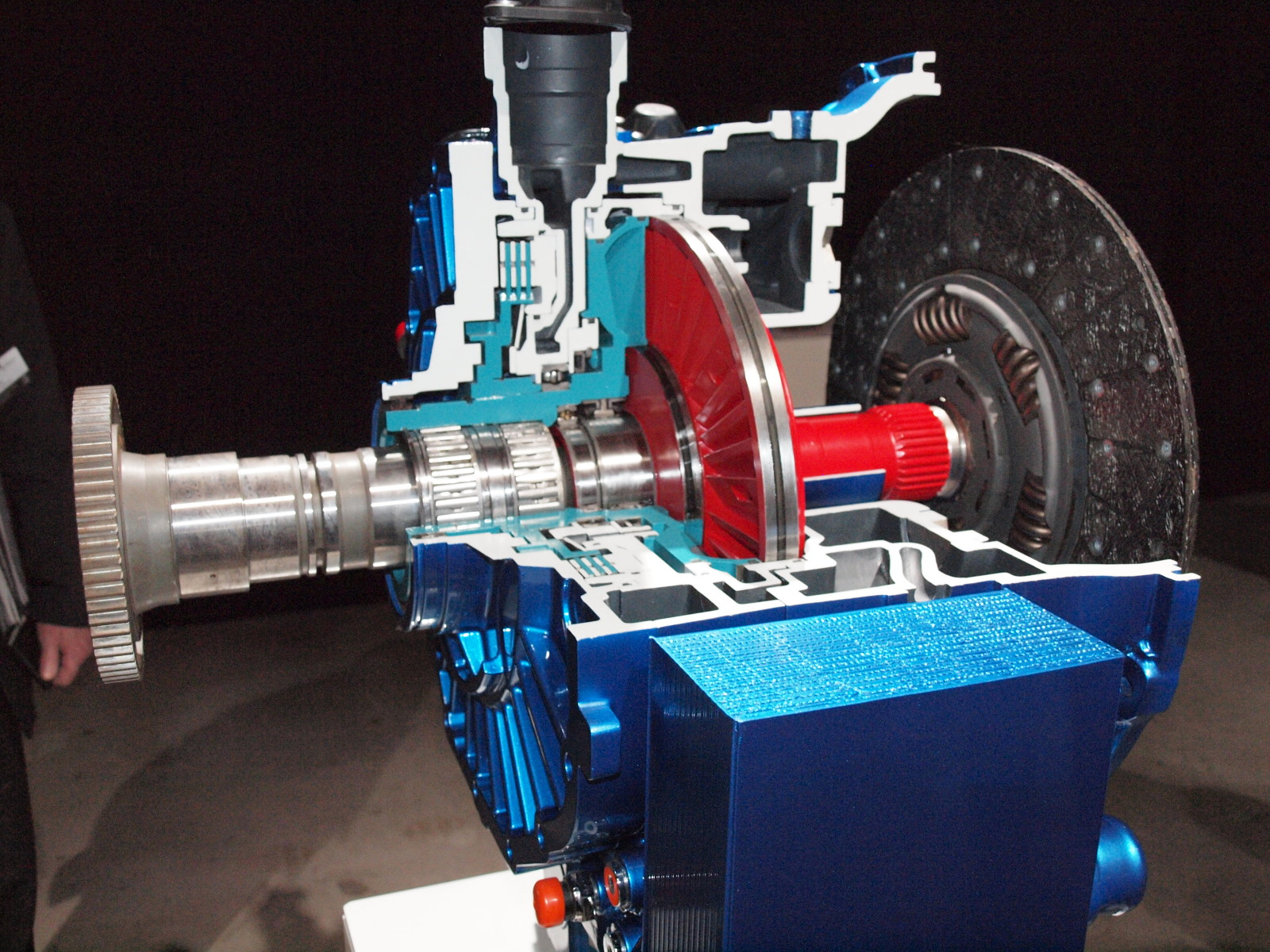 Turbo-Retarder-Clutch